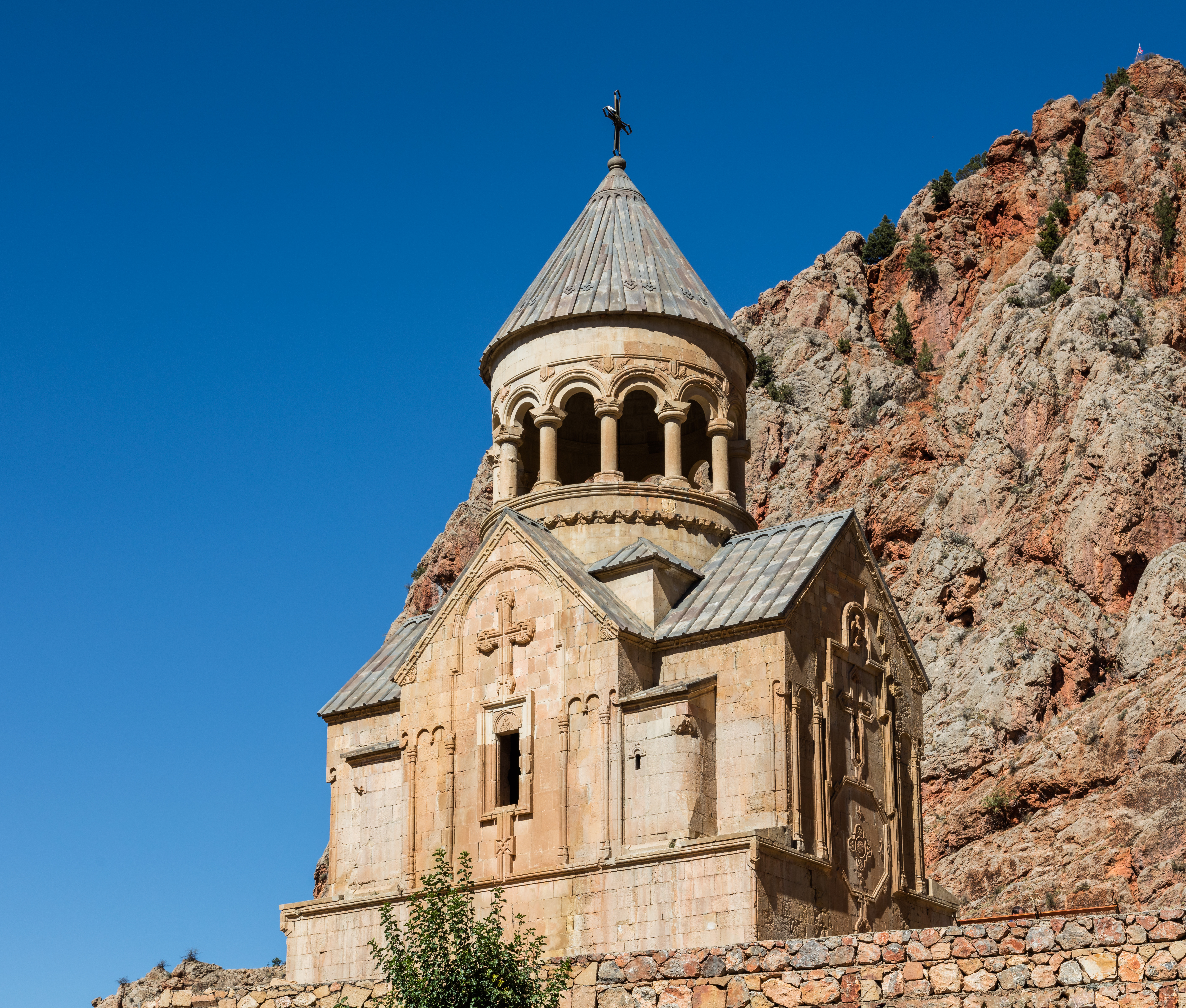 The Surb Astvatsatsin ('Holy Mother of God') Church at Noravank, a large thirteenth-century monastic complex located inside a gorge in Armenia, with sheer cliffs on both sides. This church is considered the centrepiece of the complex, its grandest and most dramatic building, and was the final project of the renowned Armenian sculptor Momik, whose tomb is located near the church.